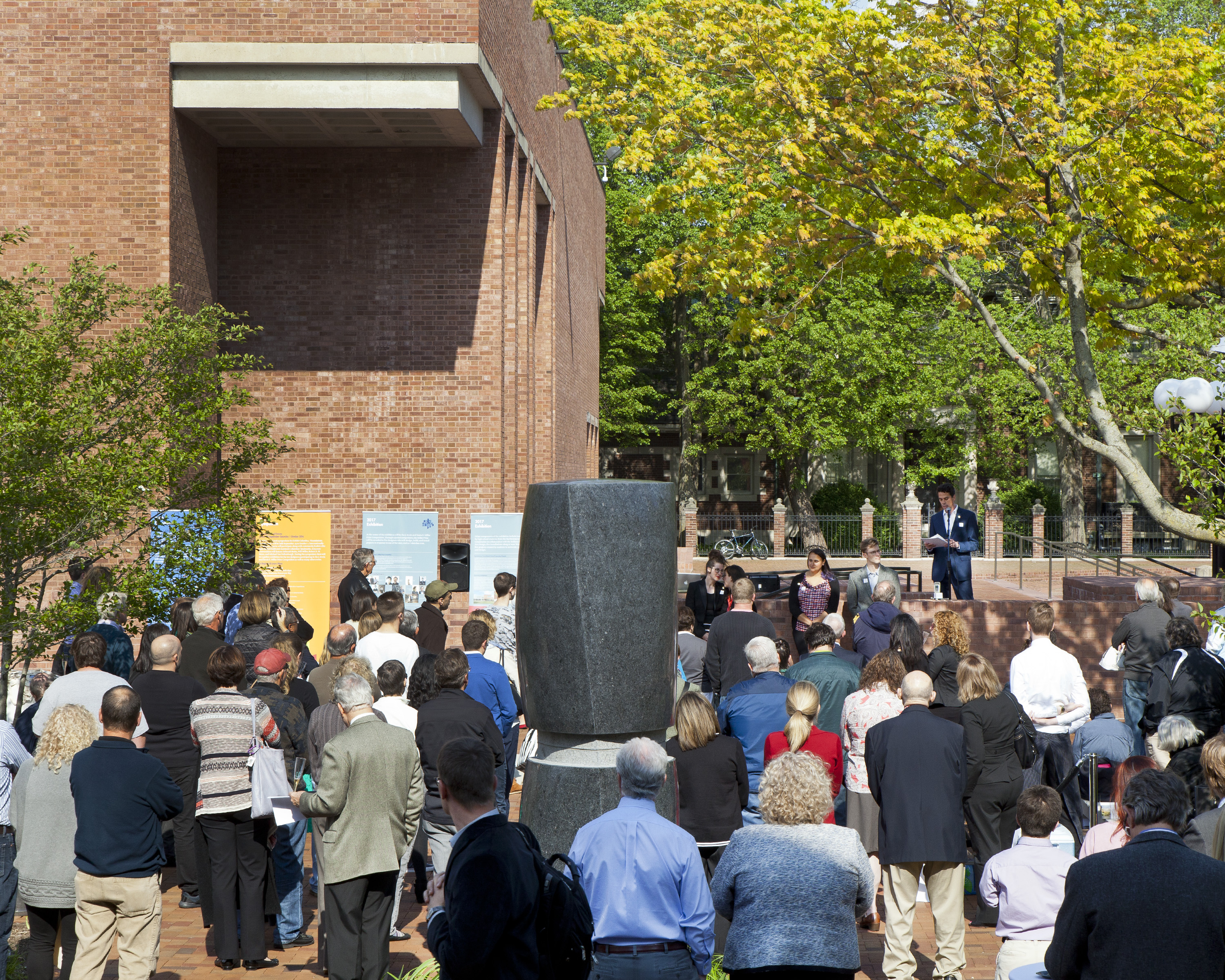 Announcement event for "Exhibit Columbus" on the Library Plaza of the Bartholomew County Public Library.